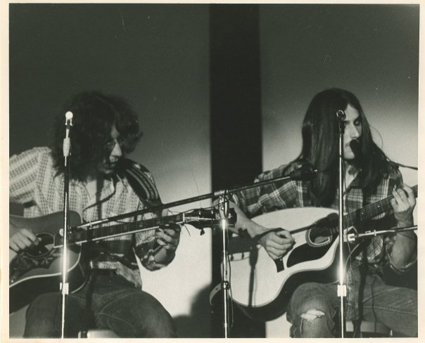 Kurt on the High School concert